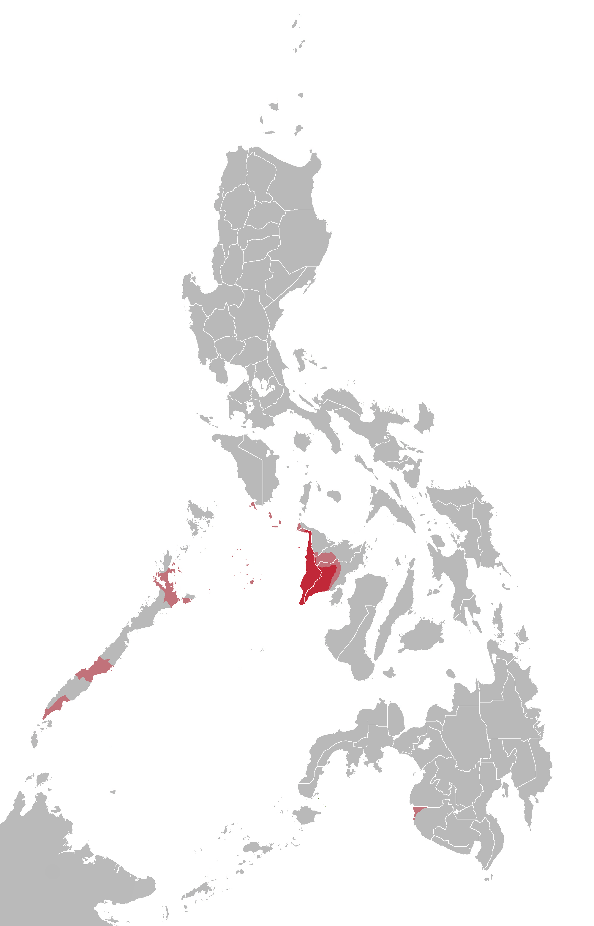 Kinaray-a language map based on Ethnologue maps